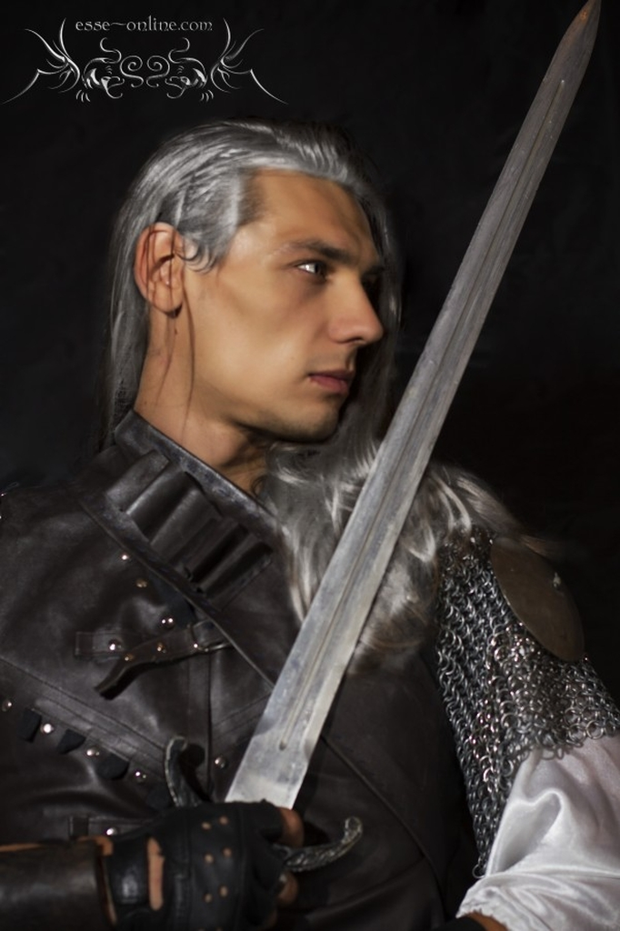 Vyacheslav Mayer (Geralt from Rivia. Witcher. Gwynbleidd) . Movie-musical and rock-opera - "Road without return", based on the novel series "The Witcher" by Andrzej Sapkowski - "The Witcher". Vocalist of symphonic rock-group "ESSE". Photo - Yuri Osadchy.)